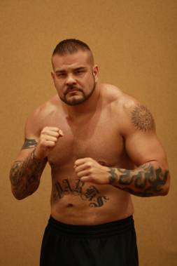 Ron "The Monster" Sparks. Heavyweight Mixed Martial Artist